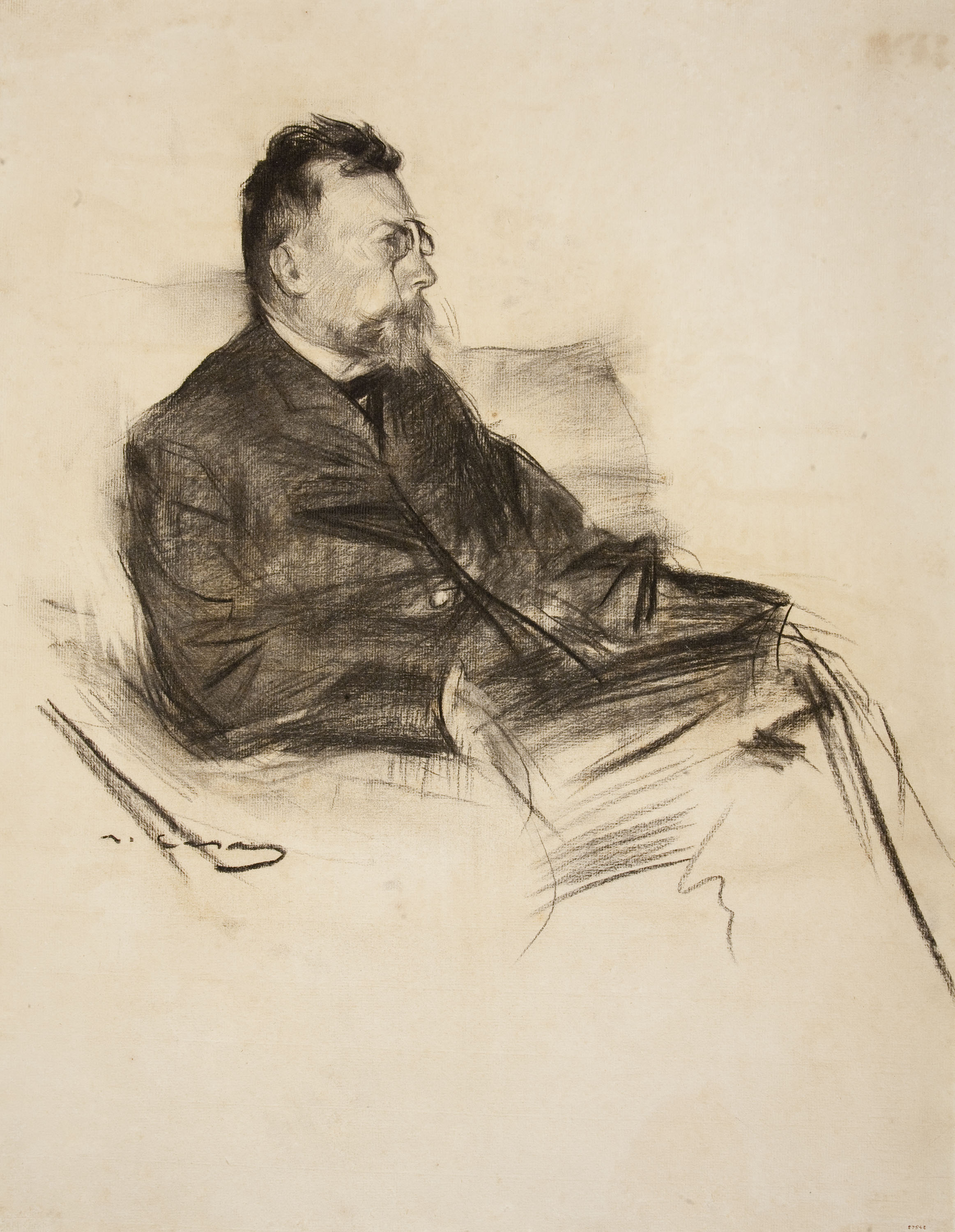 Portrait by Ramon Casas conserved at MNAC in Barcelona.